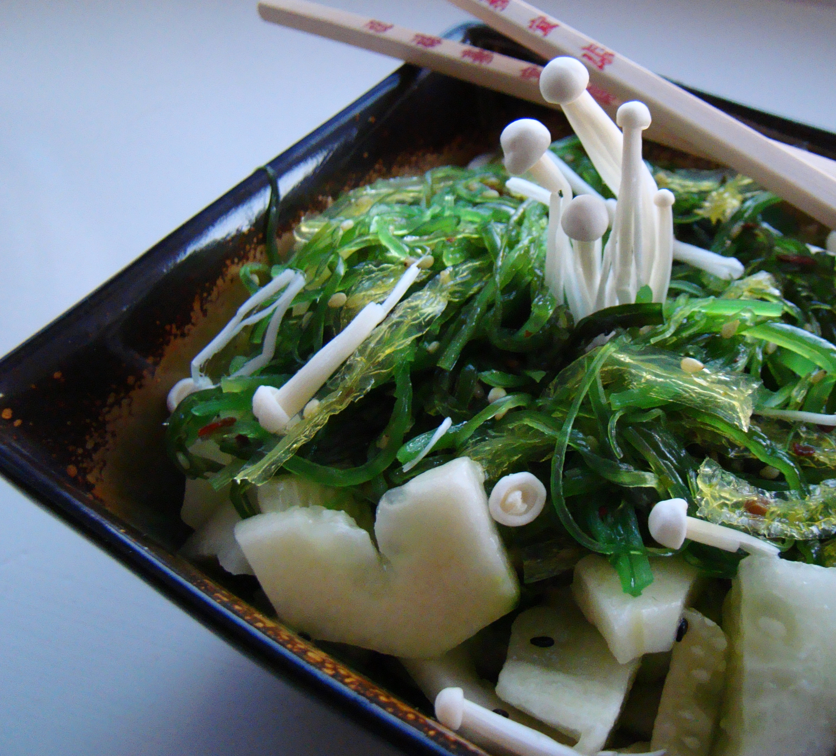 Seaweed Cucumber Sunomono